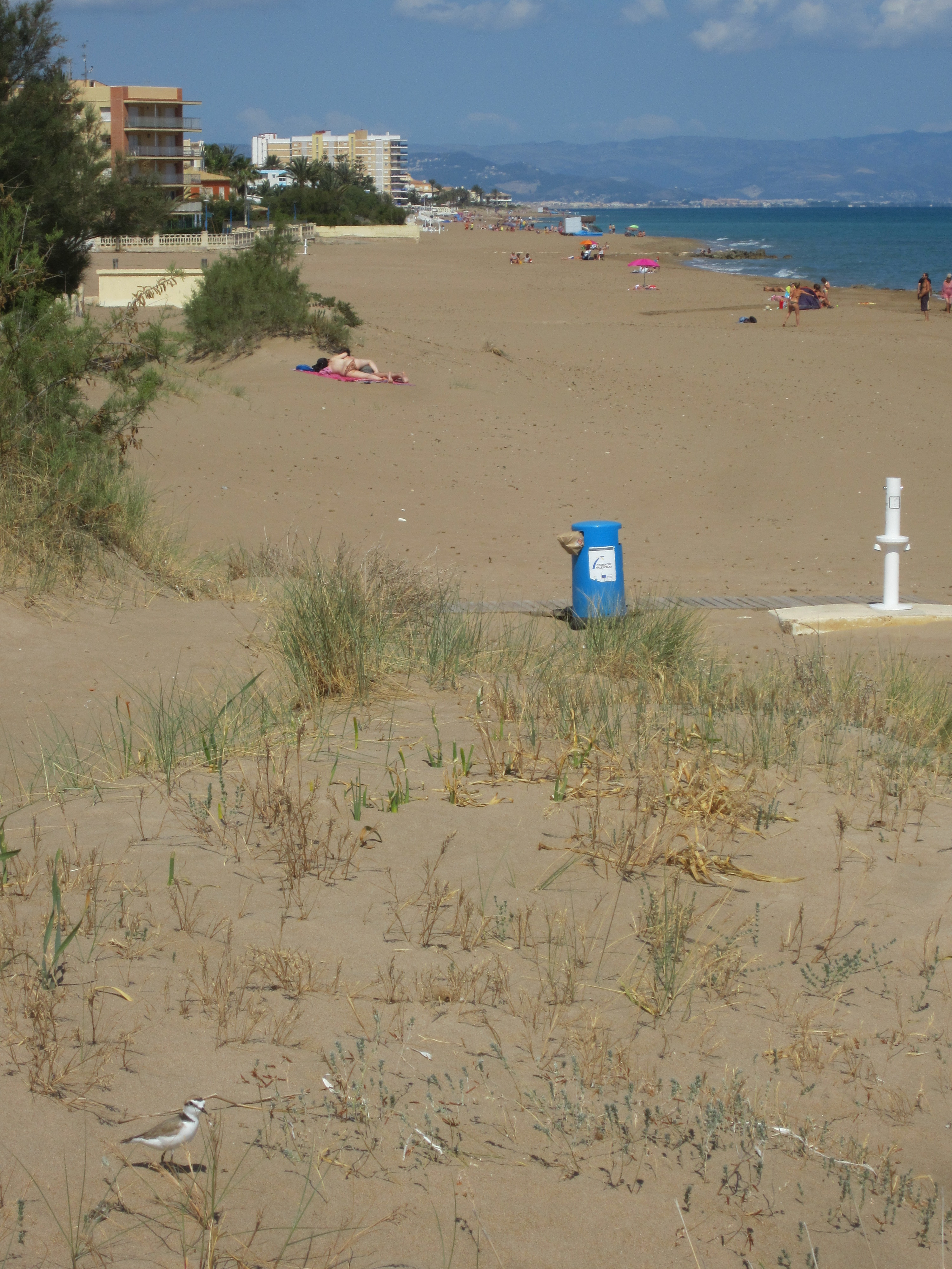 Beach of les Marines, in the municipality of Dénia, Marina Alta, province of Alacant, community of Valencia, Spain. May 25, 2014